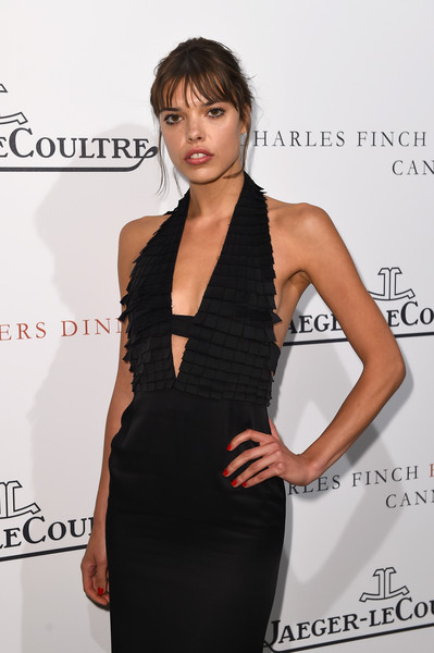 Eva Dolezalova at Cannes Film Festival 2015